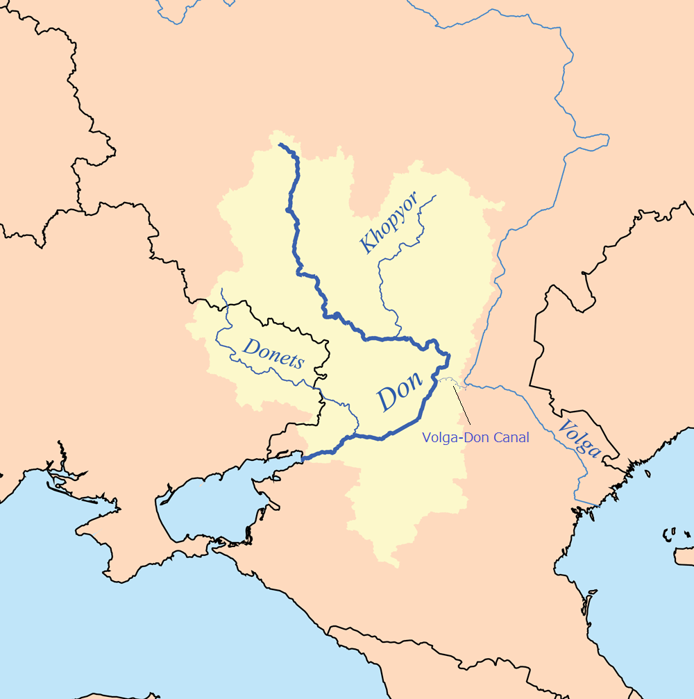 Don River, Volga River and Volga-Don Canal in Russia.This image is a derivative from File:Donrivermap.png.